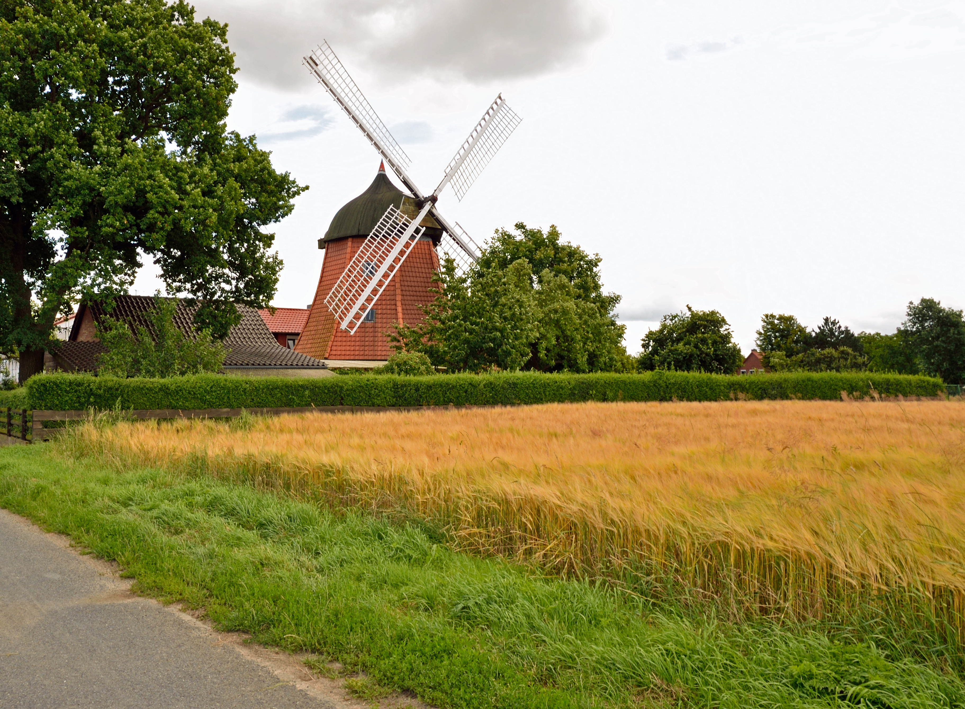 Smock mill in Zweidorf, Wendeburg